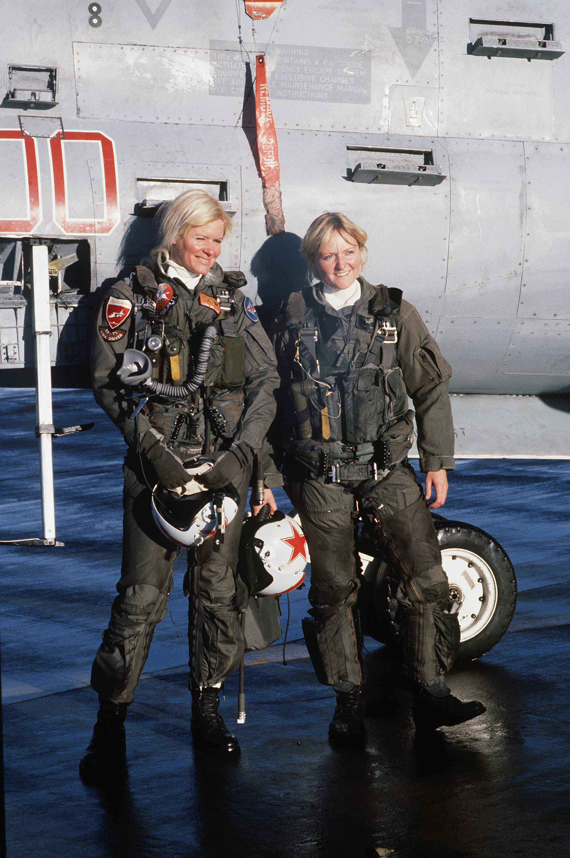 U.S. Navy Lieutenants Lori "Wrench" Melling (left) and Laura "Moose" Mason, Tactical Electronic Warfare Squadron 34 (VAQ-34), pose for a picture in front of their EA-7L Corsair II aircraft during the U.S. 3rd Fleet North Pacific Exercise (NORPACEX) at Elmendorf Air Force Base, Alaksa (USA), on 8 November 1987.